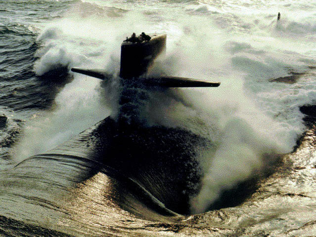 USS Providence (SSN-719) Underway during sea trials at high speed on the surface. The four crew members in the sail are CAPT E.D. Morrow, LT David Norton (Officer of the Deck), Chief of the Boat STCM(SS) J.R. Snipes, and the youngest crew member SN R.T. Morgan (Lookout).